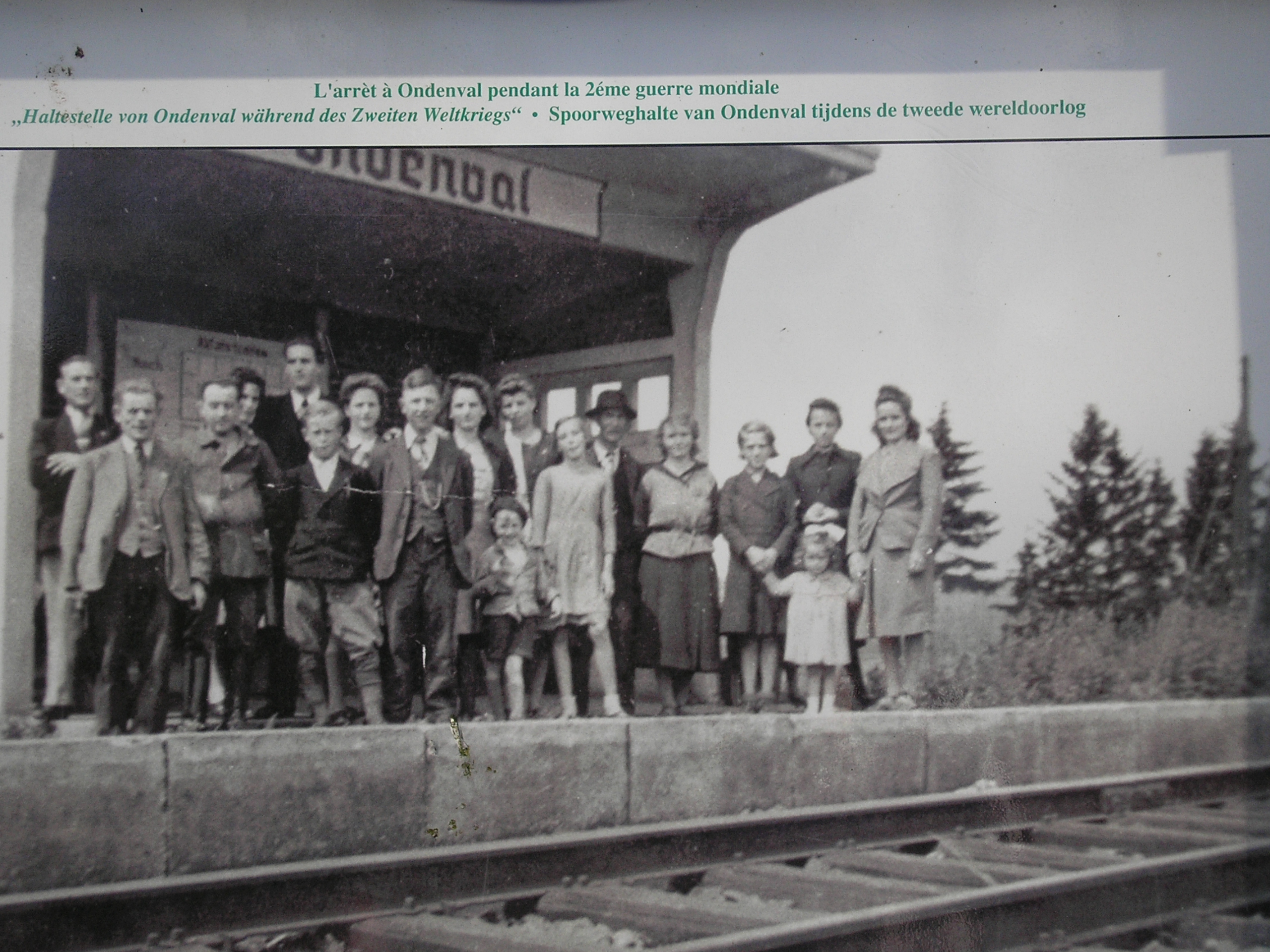 Railway Station of Ondenval, East Belgium, while World War II.